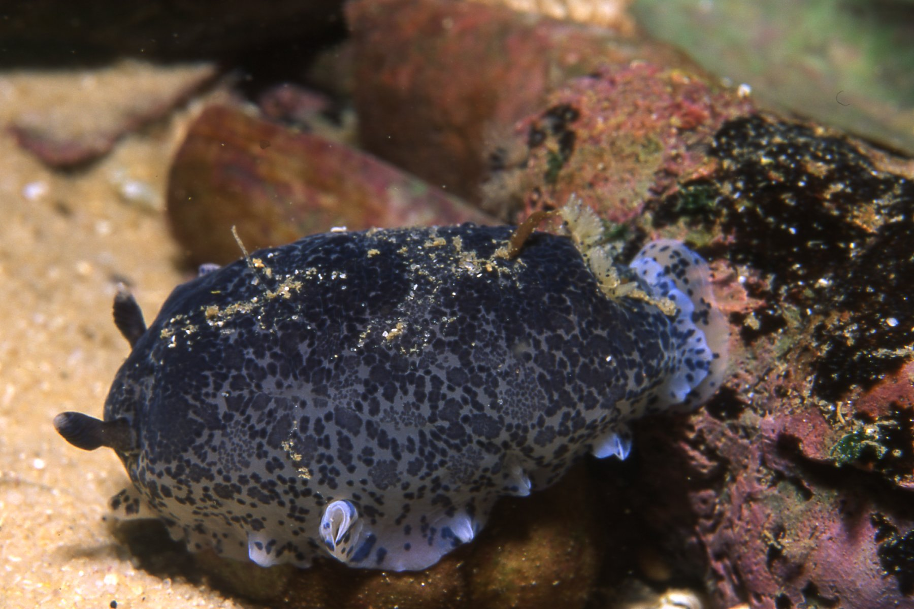 a photograph of the bluespeckled nudibranch, Dendrodoris caesia, taken off the Cape Peninsula at Long Beach in about 6m of water using a Nikonos V camera